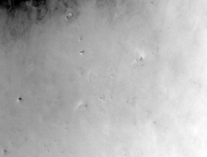 Dust-raising event monitoring in northwest Amazonis Planitia.